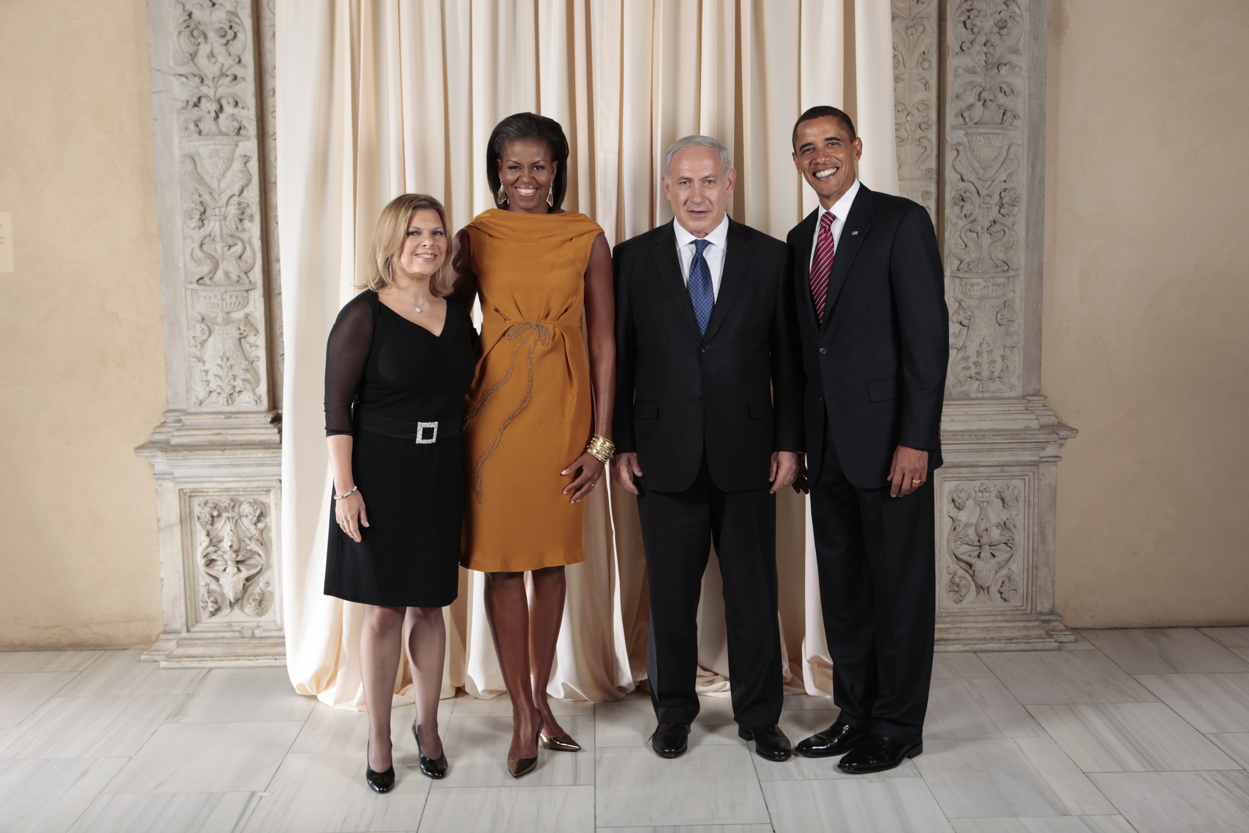 President Barack Obama and First Lady Michelle Obama pose for a photo during a reception at the Metropolitan Museum in New York with Benjamin Netanyahu and Mrs. Netanyahu of Israel.